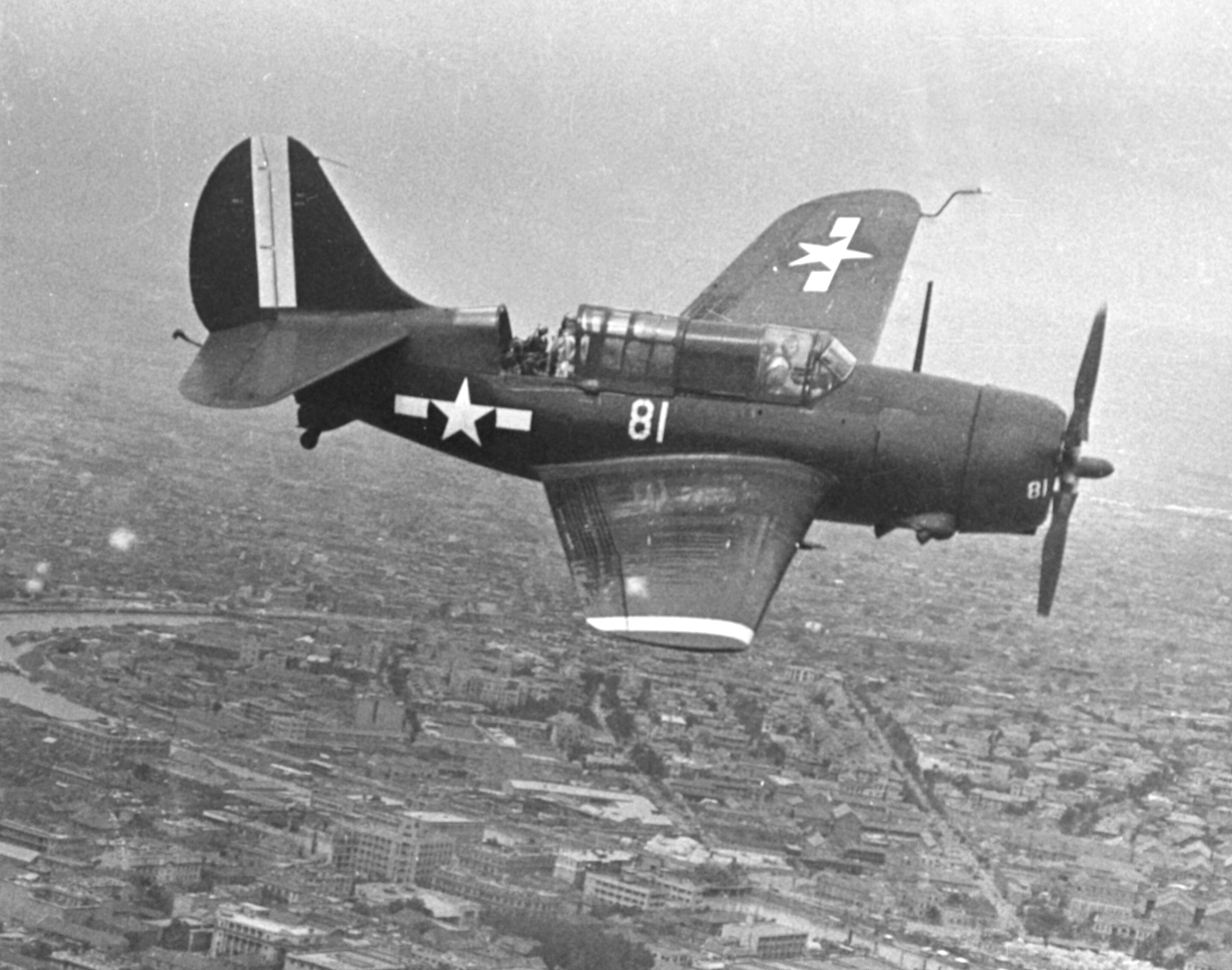 A U.S. Navy Curtiss SB2C-5 Helldiver from Bombing Squadron 10 (VB-10), Carrier Air Group 10 (CVG-10), assigned to the aircraft carrier USS Intrepid (CV-11), in flight over Tianjin, China, as the city is reoccupied by the Allies, 5 September 1945. Note USS Intepid´s geometric carrier air group identification symbol on the SB2C.